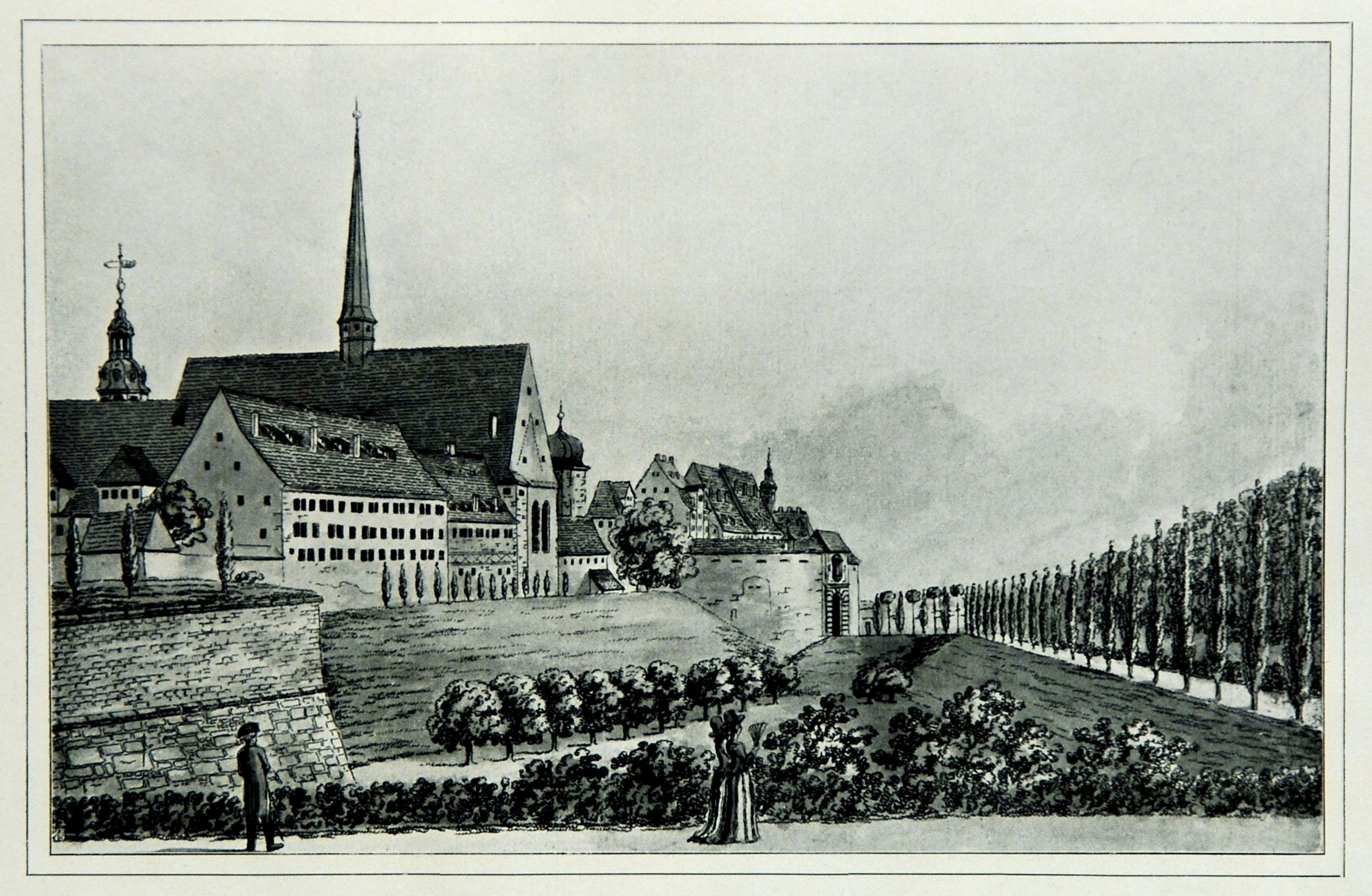 University Leipzig (Germany) ca. 1800